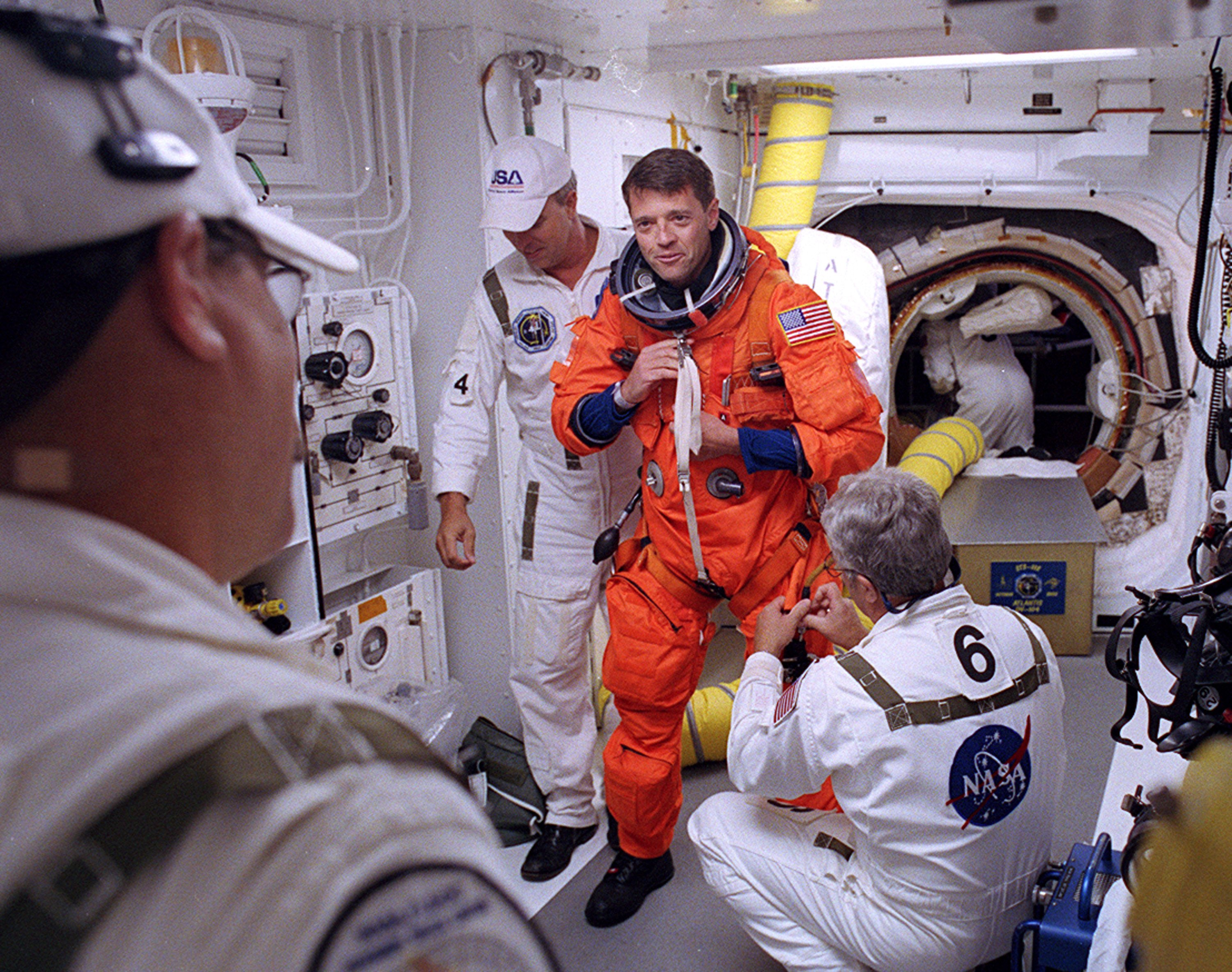 KENNEDY SPACE CENTER, FLA. In the White Room at Launch Pad 39B, STS-112 Commander Jeffrey Ashby receives assistance with his spacesuit before boarding Space Shuttle Atlantis. Liftoff is schedued for 3:46 p.m. EDT. Along with a crew of six, Atlantis will carry the S1 Integrated Truss Structure and the Crew and Equipment Translation Aid (CETA) Cart A to the International Space Station (ISS). The CETA is the first of two human-powered carts that will ride along the ISS railway, providing mobile work platforms for future spacewalking astronauts. On the 11-day mission, three spacewalks are planned to attach the S1 truss. (Photo Release Date: 10/07/2002)